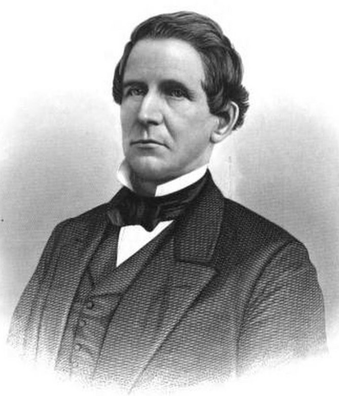 George V. Lawrence (Pennsylvania Congressman)